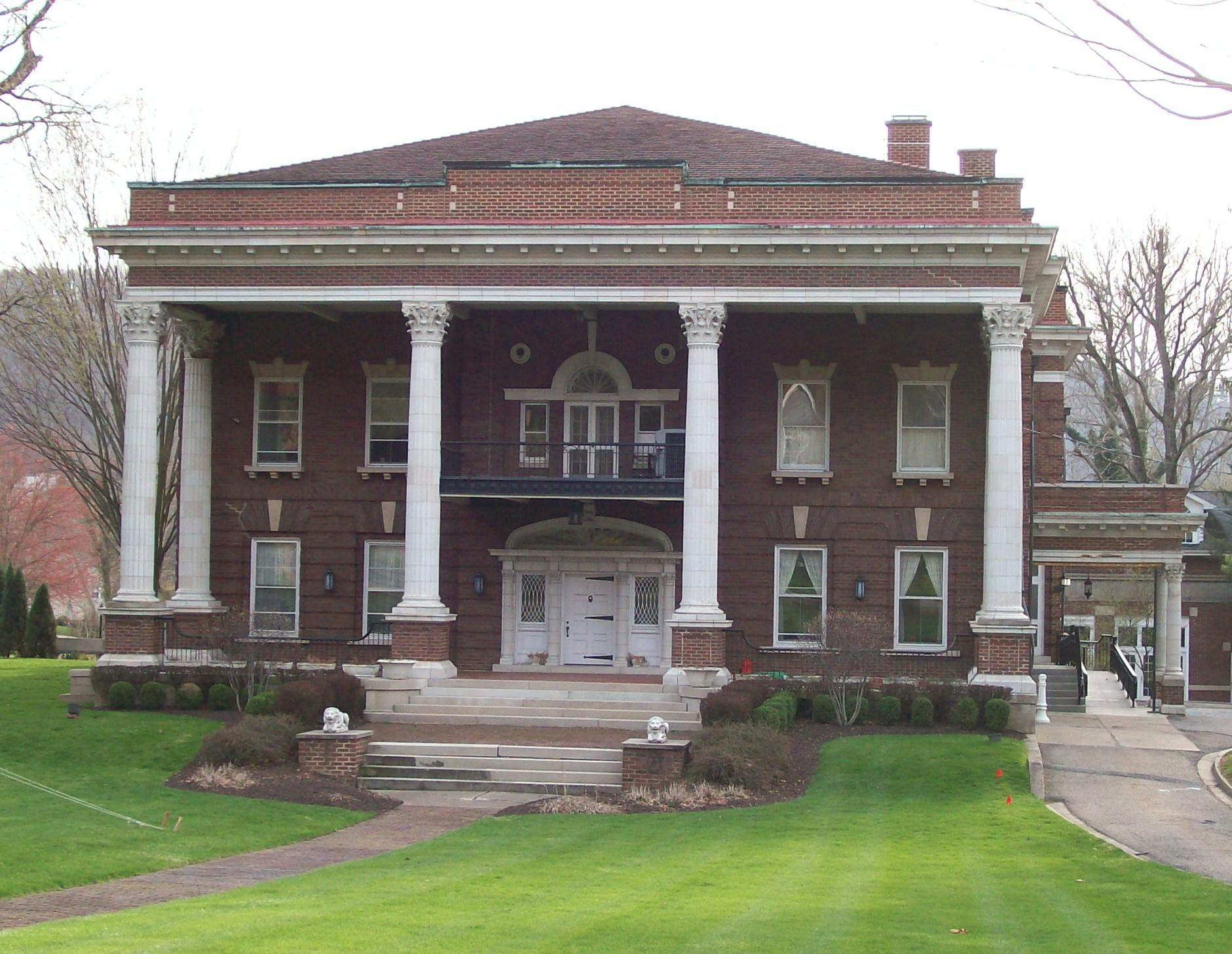 Edemar, also known as the Stifel Fine Arts Center, at 1330 National Road in Wheeling, West Virginia. The house looks east onto National Road. Listed on the NRHP in 1992. Taken April 2, 2010.